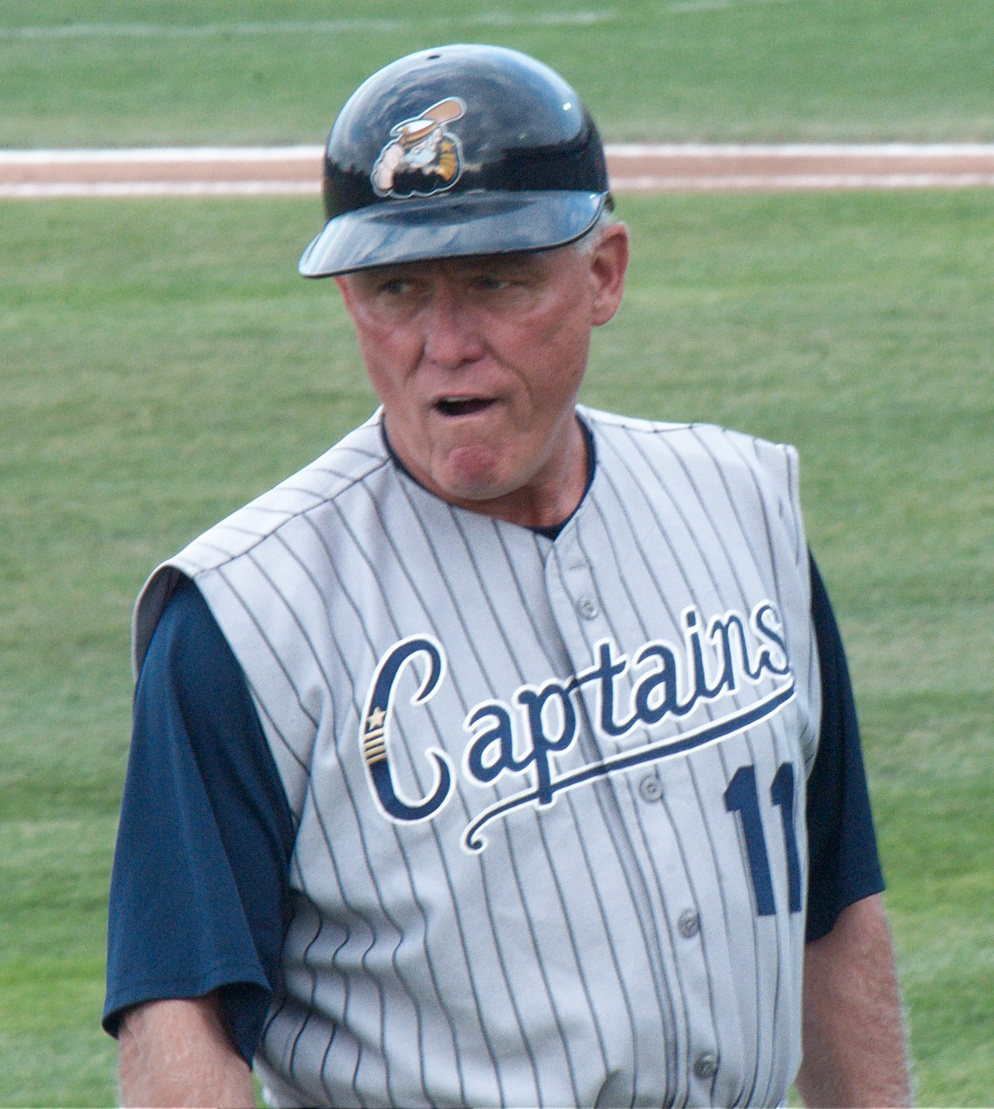 Ted Kubiak with the Lake County Captains during a game against the Lansing Lugnuts in Lansing, Michigan in 2010.